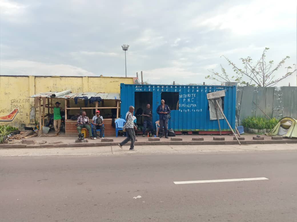 This is an image with the theme "Africa on the Move or Transport" from: Democratic Republic of the Congo